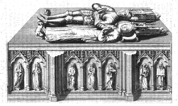 Aimon et Yolande